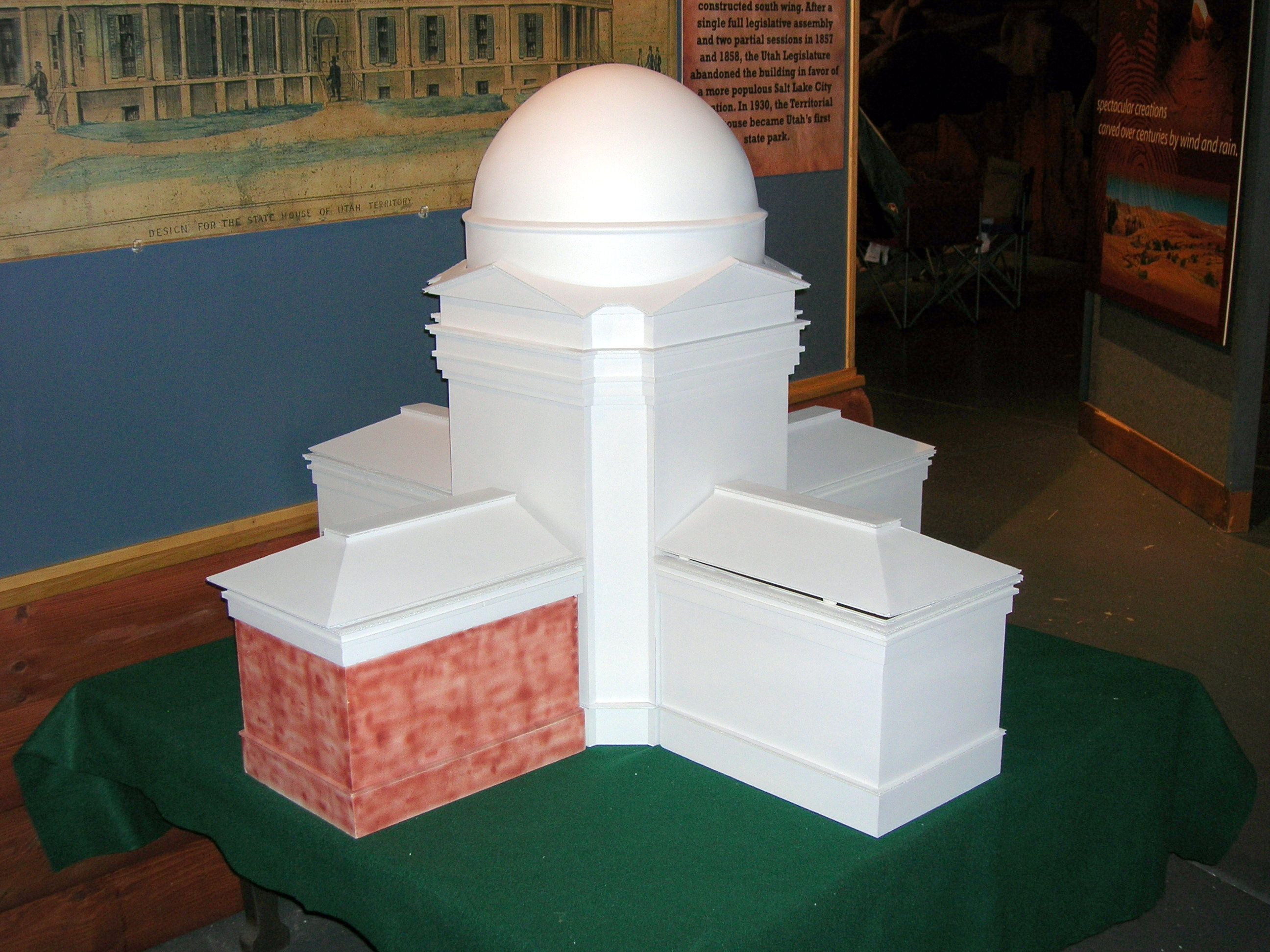 Photograph of Utah Territorial Statehouse model at Iron Mission State Park in Cedar City, UT.